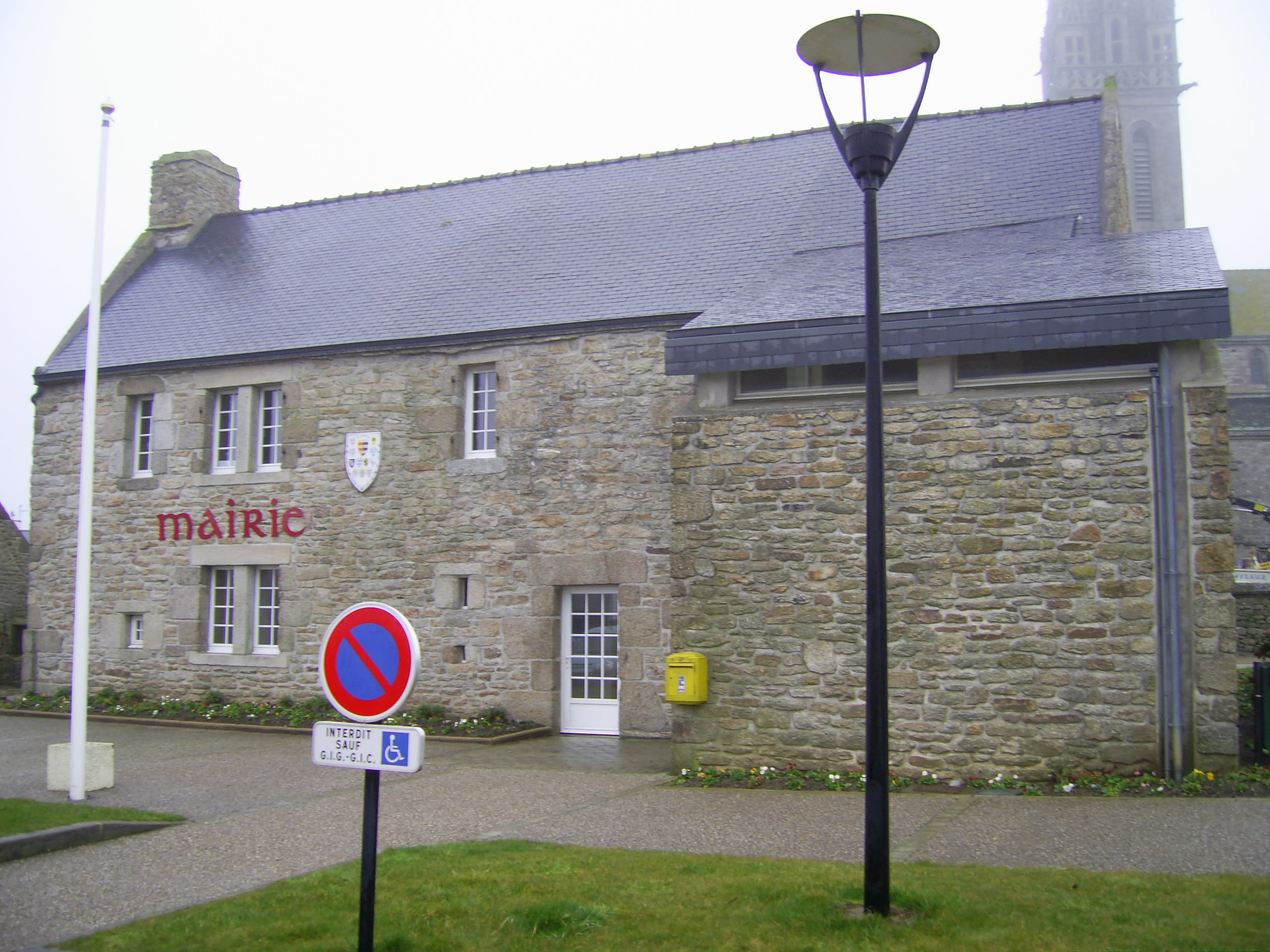 A photography of the Plourin town hall front